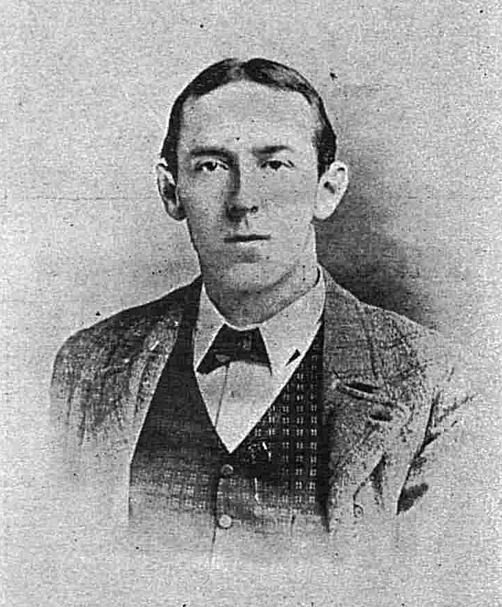 Portrait of English composer Hugh Blair